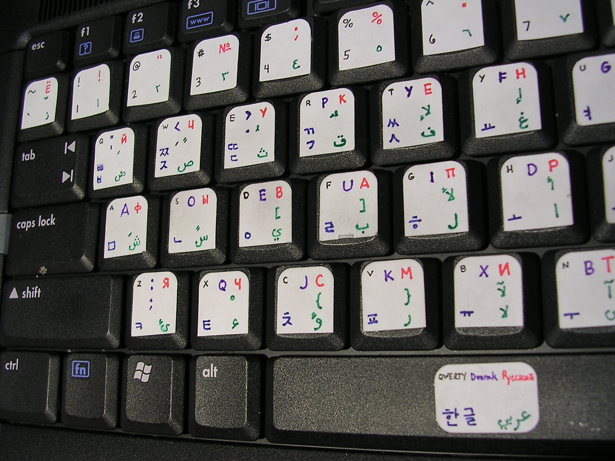 A picture of my laptop keyboard, modified to simultaneously show the keyboards I am learning (Dvorak Simplified, Russian, Korean Dubeolsik, and Bahraini Arabic). The characters were written with ultra-fine (0.1 and 0.05 mm) colored pens, and the weird angle and pseudo-cropped framing were the result of the harsh overhead lighting at the time I took this photo.